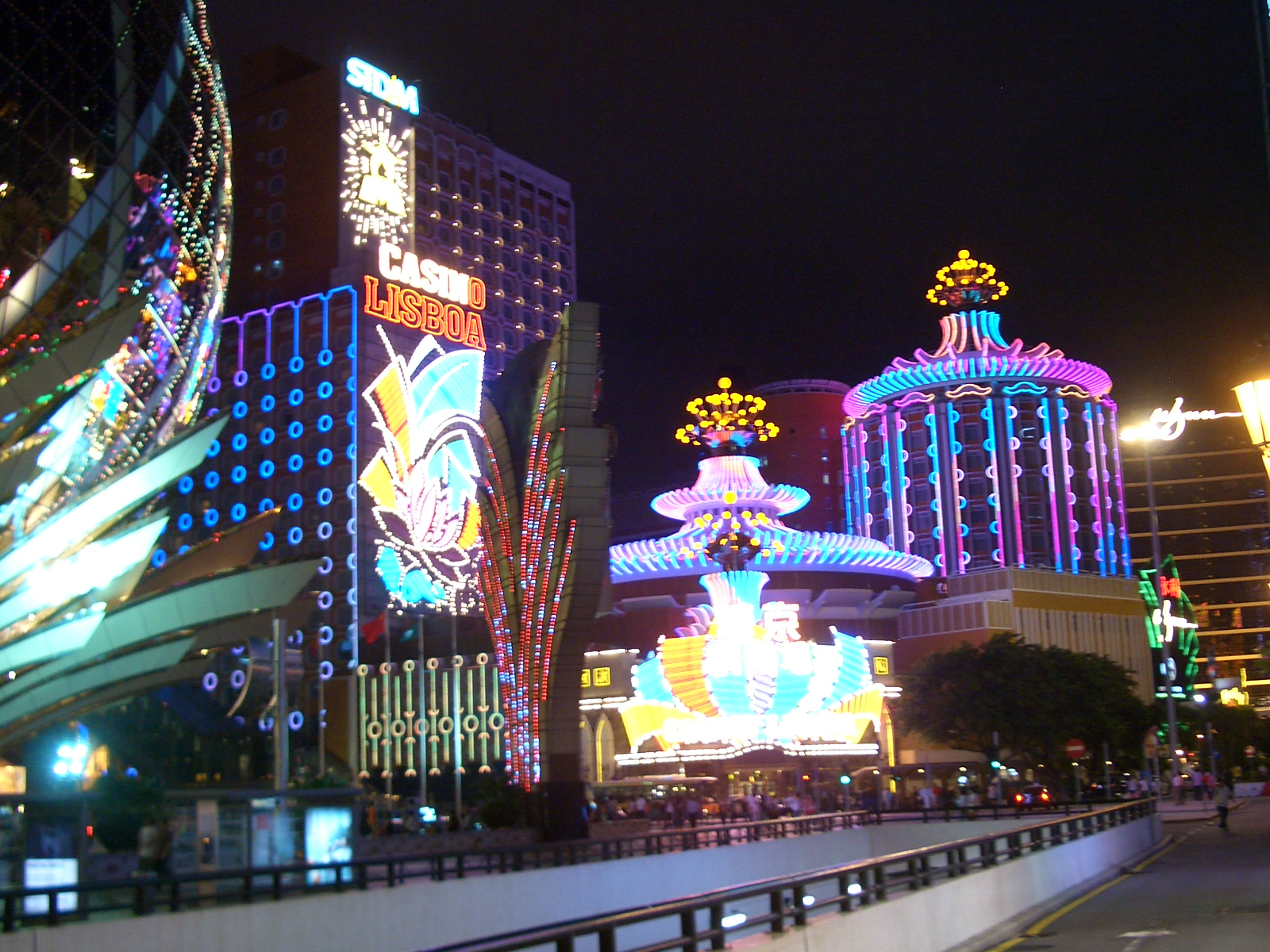 Casino Lisboa ad neighboring buildings at night. The big sphere in the front is probably part of the nearby Grand Lisboa.